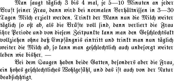 Facsimile of the "Marriage of Happiness" guidance by Carl Buttenstedt 1903 Source: Carl Buttenstedt: Die Glücks-Ehe (die Offenbarung im Weibe) - Naturstudie, Berlin-Friedrichshagen 1903